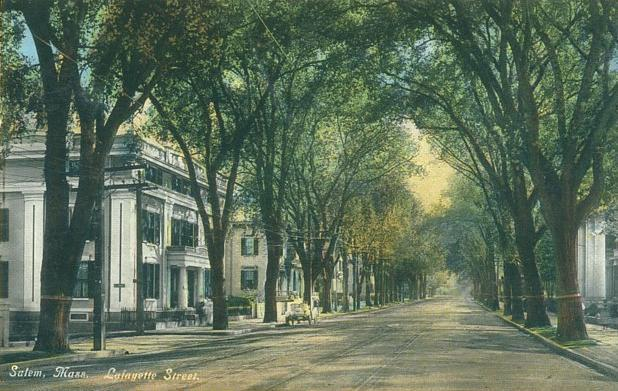 Lafayette Street, Salem, Massachusetts. The colorized photograph on this postcard shows the mansion of Dr. West. It was destroyed in the Great Salem Fire of June 25, 1914 while owned by S. E. Cassino. He owned the Cassino Press, publisher of Little Folks children's magazine.